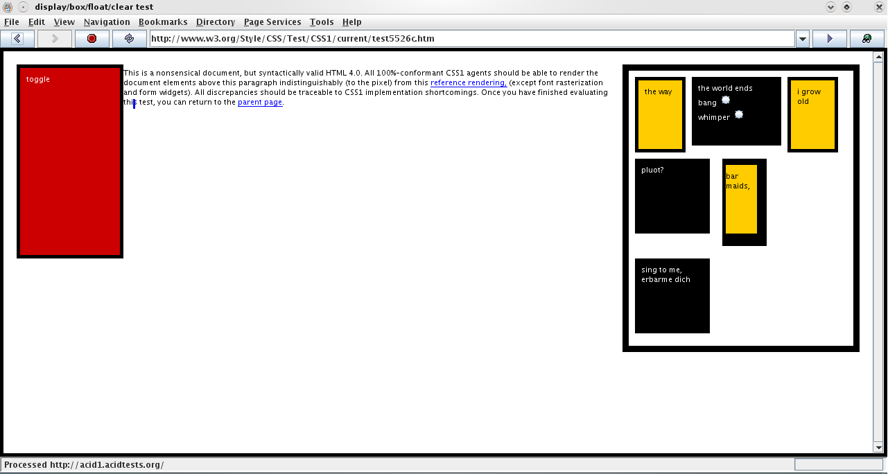 Lobo, a web browser written in Java, taking (and failing miserably) the Acid1 test on Linux.